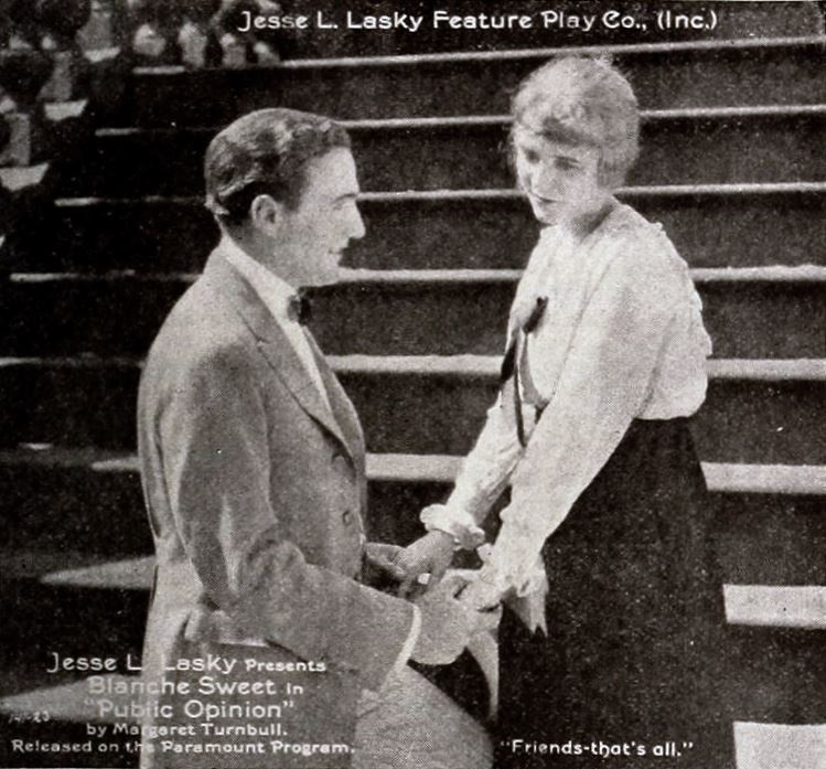 Still from the American drama film Public Opinion (1916) with Blanche Sweet, on page 387 of the September 1916 Cine-Mundial (American Spanish language magazine). The caption states, "Friends -- that's all."